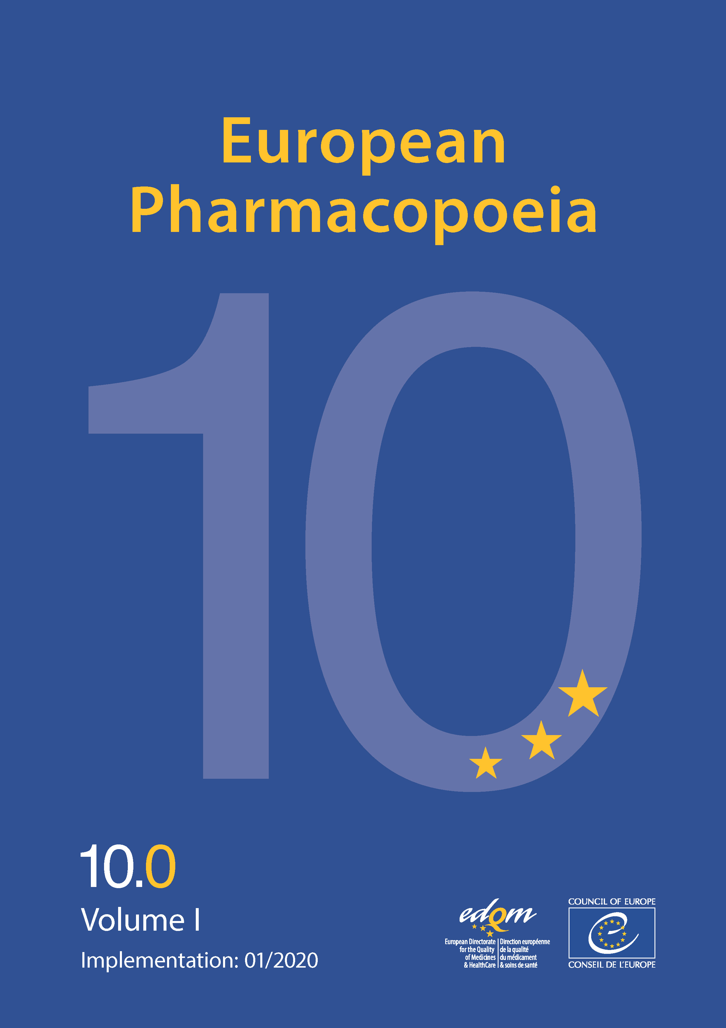 Cover of the European Pharmacopoeia, 10th Edition